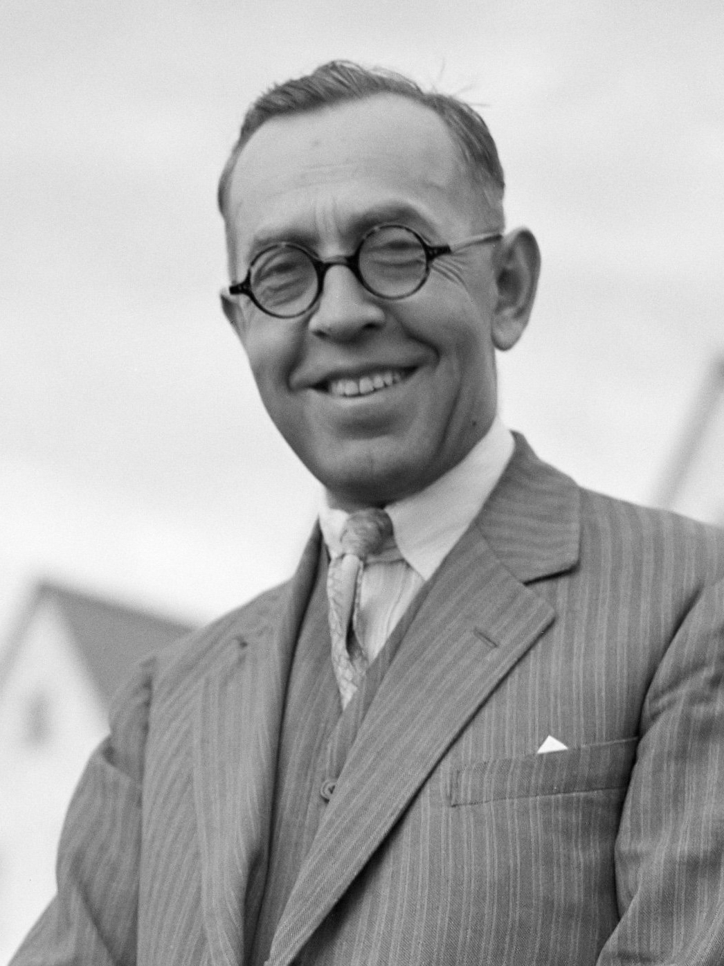 The Icelandic parliamentarian Jónas Jónsson at Laugarvatn